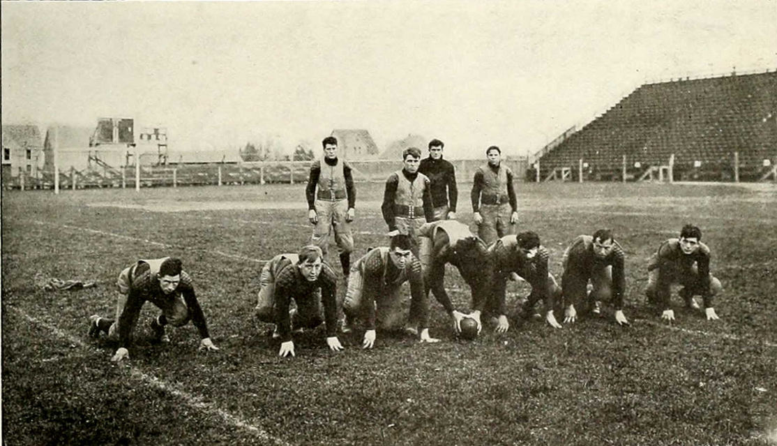 Photograph of 1904 Michigan football team, Fred Norcross and Willie Heston pictured in backfield